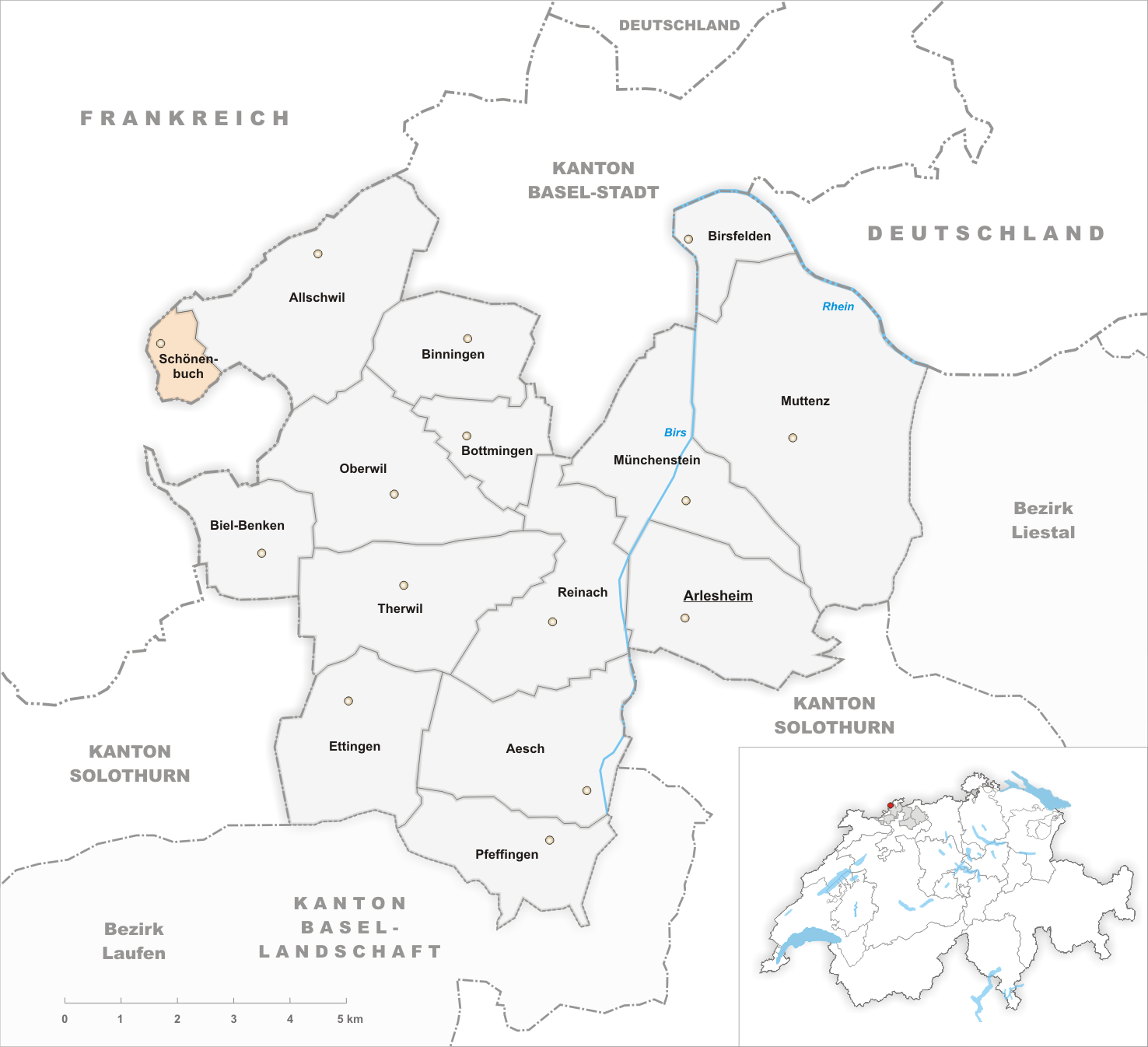 Municipality Schönenbuch